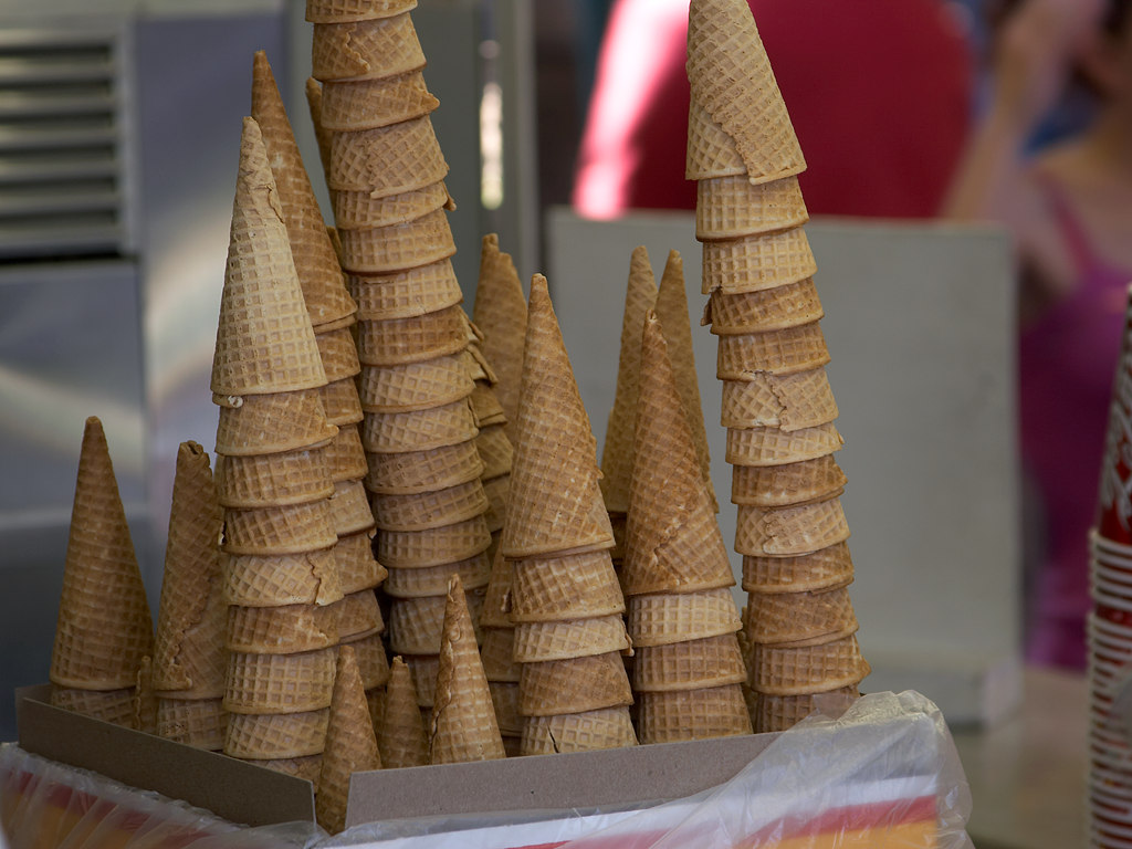 Picture of Waffle ice cream cones from